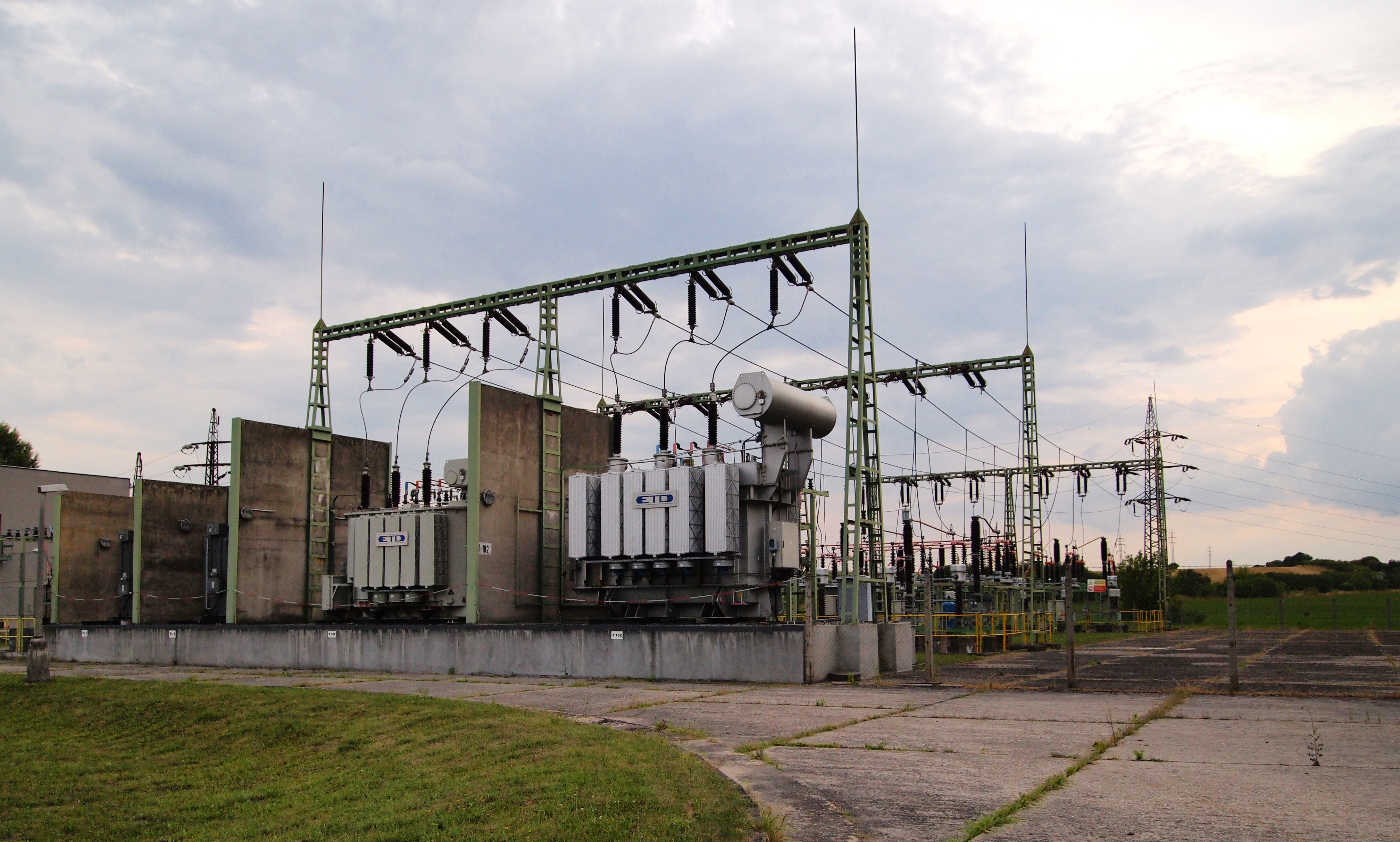 Milovice substation (110 kV) in Milovice; ETD transformers. This photograph was taken with an Olympus E-PL1